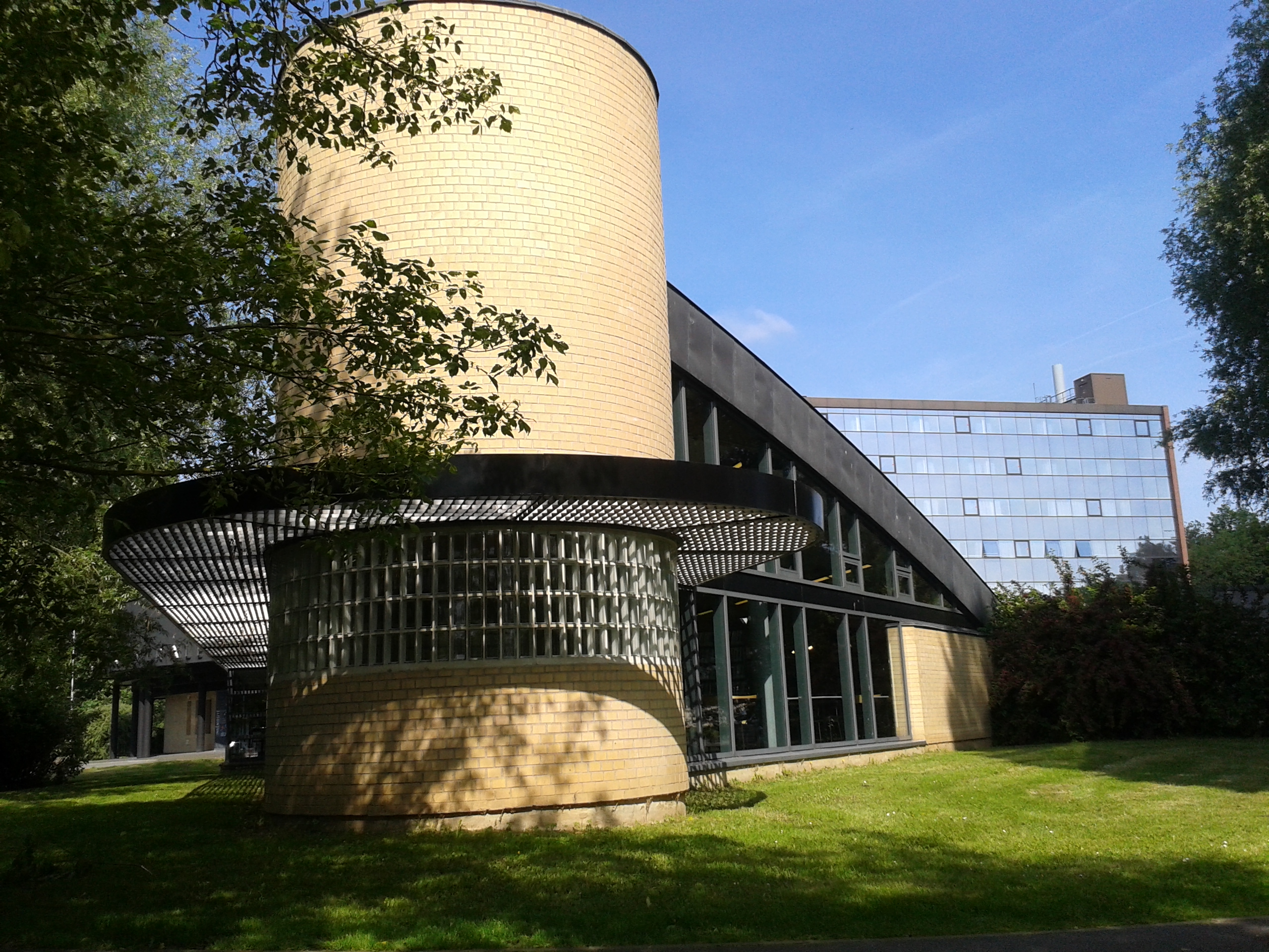 École Centrale de Lille